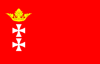 Flag of Free City of Gdańsk 1807 - 1814